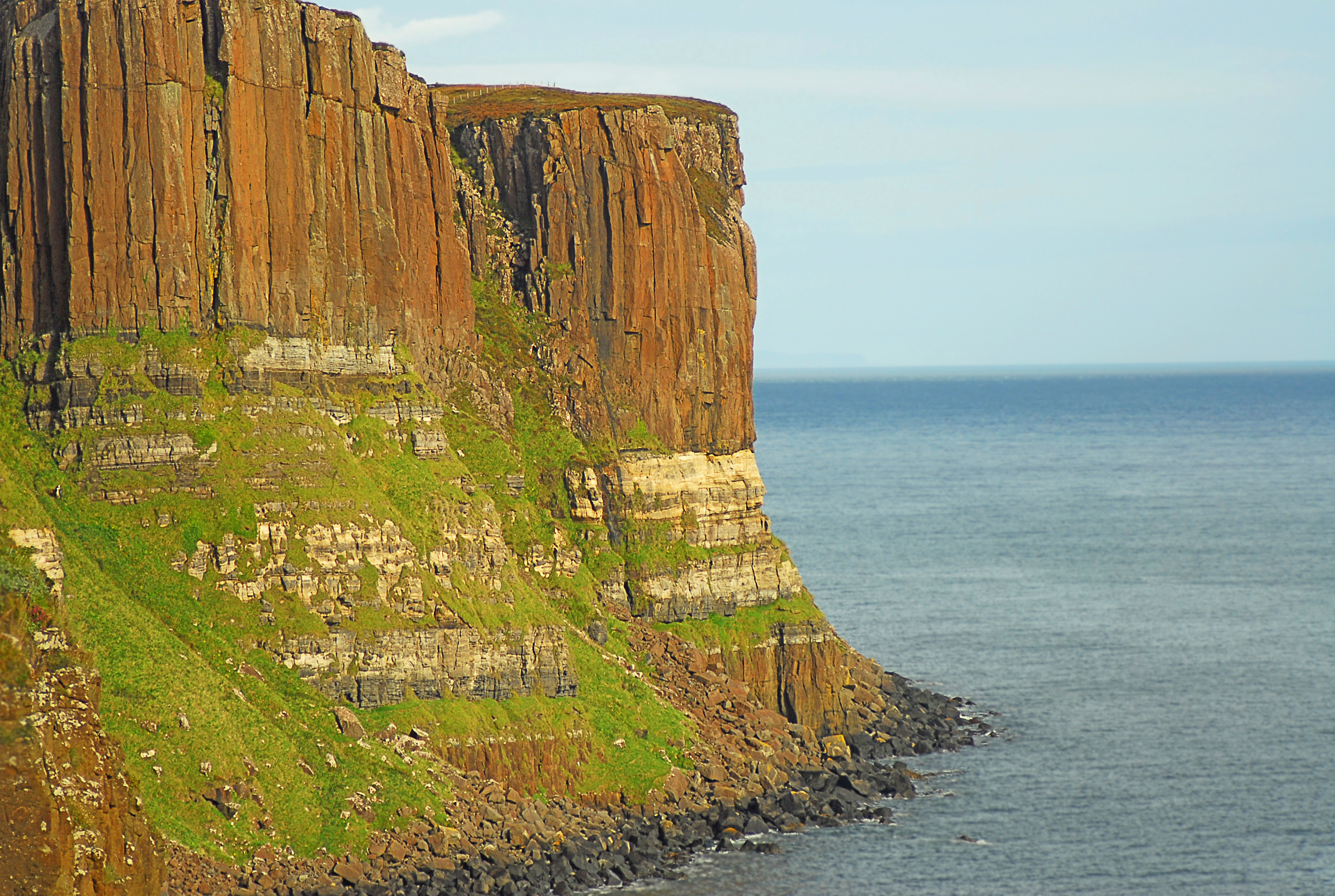 Kilt Rock on the isle of Skye. Columnar jointed Palaeocene dolerite sill above Jurassic age Valtos sandstone